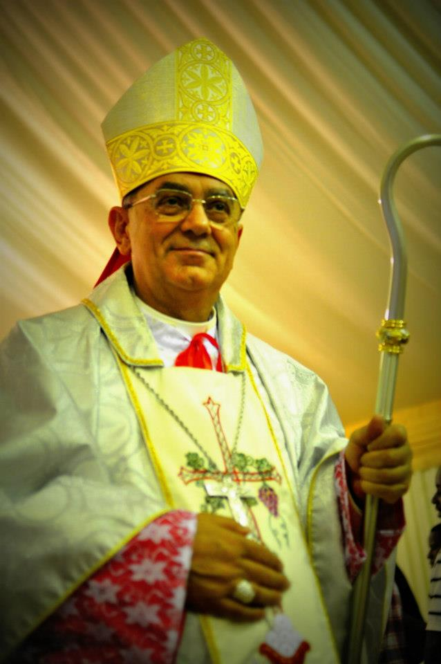 Photo of Bishop Camillo Ballin, Vicar Apostolic of the Apostolic Vicariate of Northern Arabia